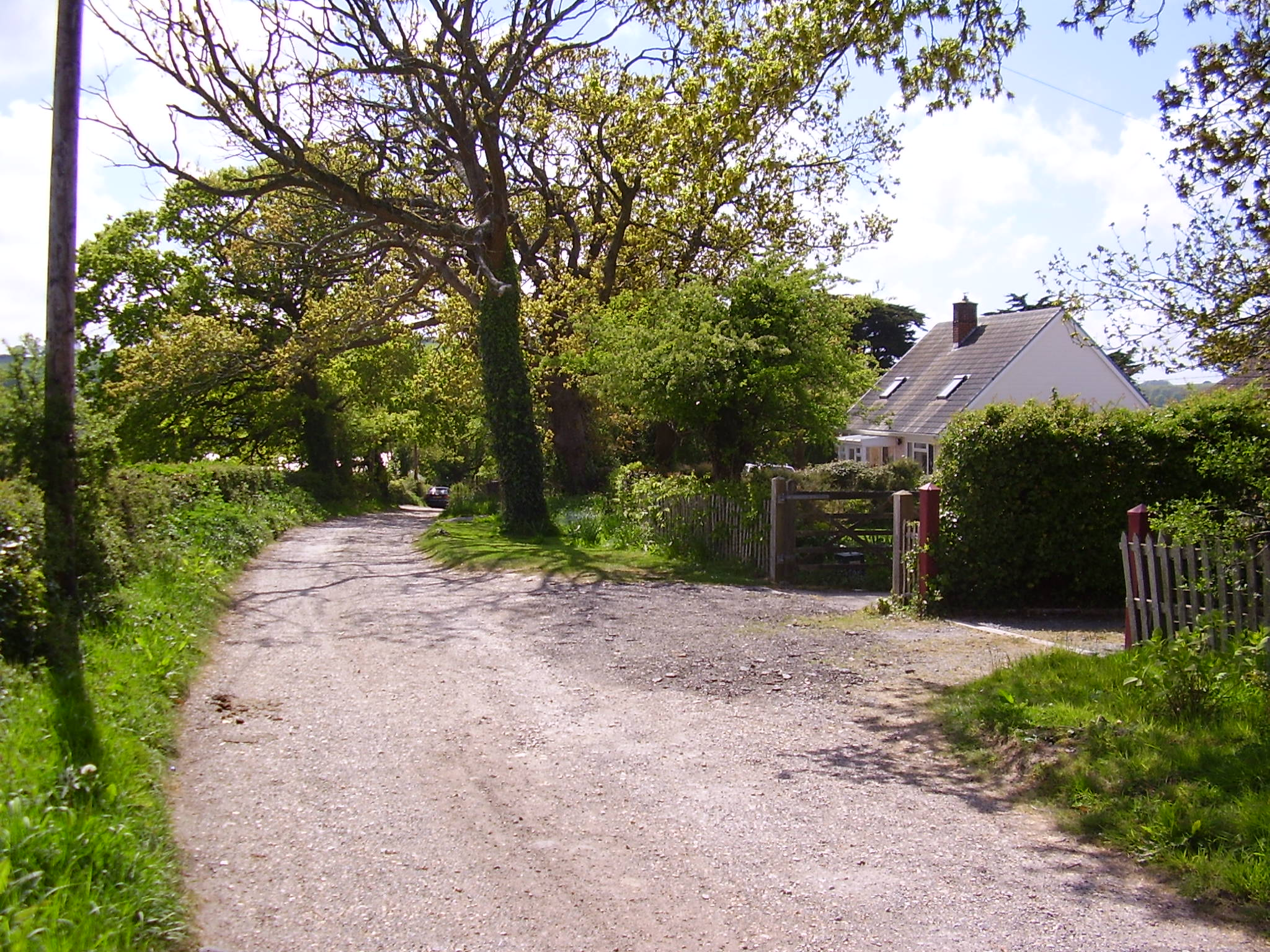 The hamlet of Ashey, Isle of Wight, UK